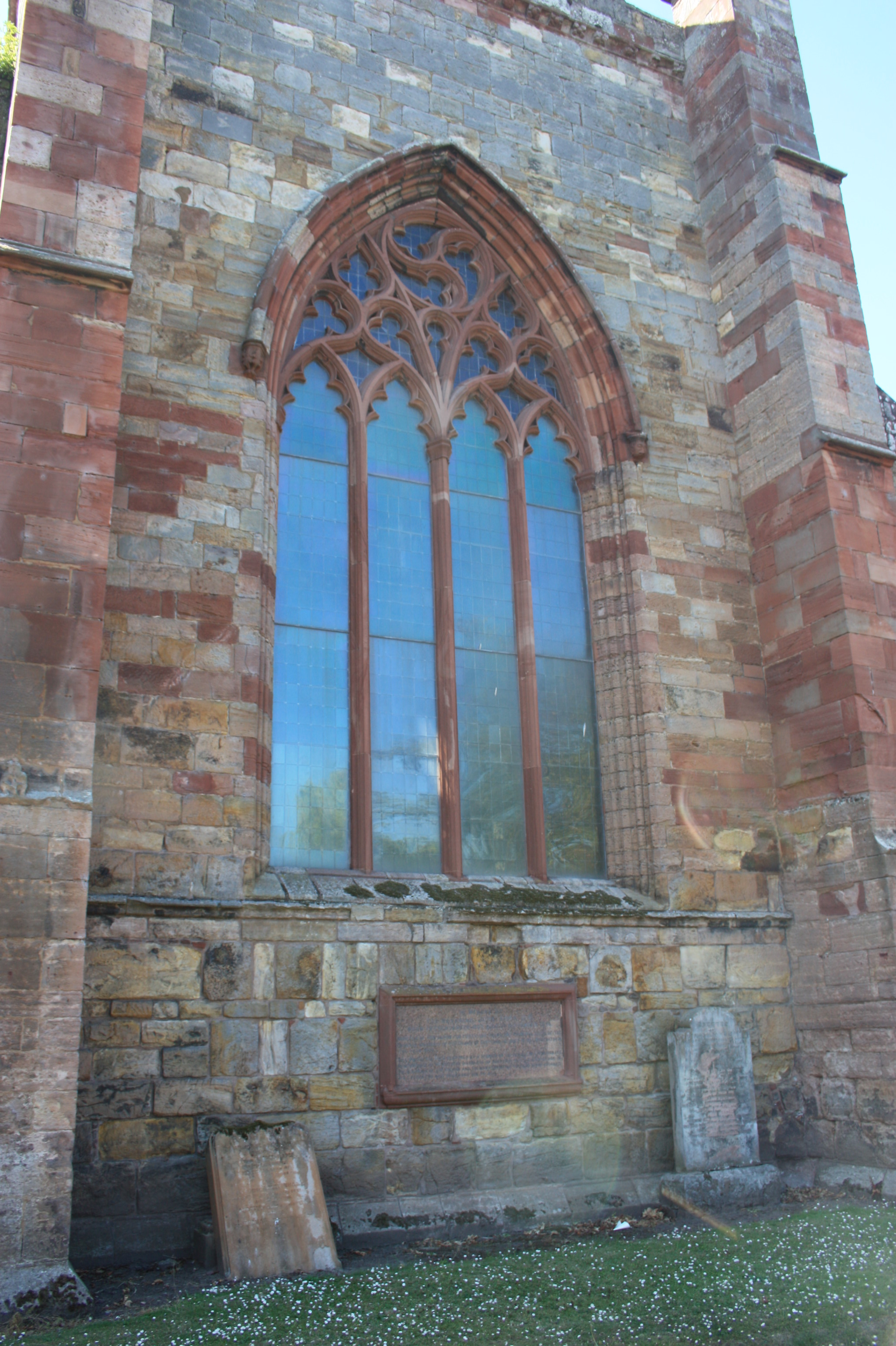 Memorial window and plaque to Very Rev John Cook, St Marys, Haddington